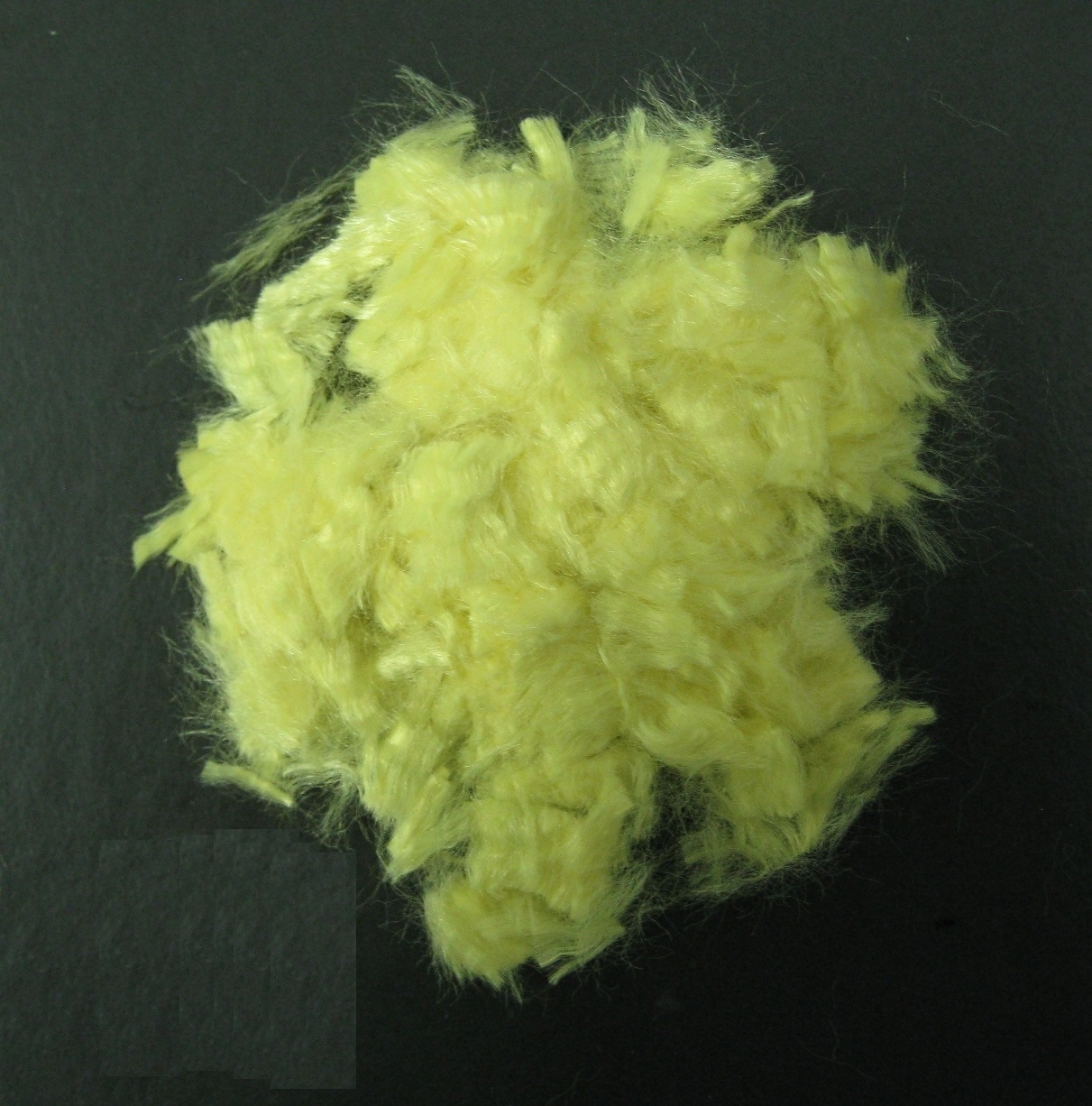 Golden yellow aramid fiber (Kevlar®). The diameter of the filaments is about 10 µm. Melting point: none (does not melt). Decomposition temperature: 500-550 °C. Decomposition temperature in air: 427-482 °C (800-900 °F).